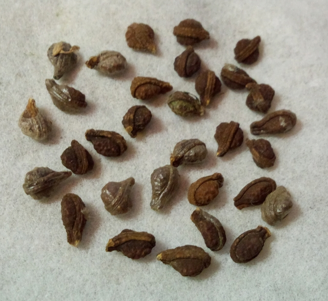 Diplocyclos palmatus seeds